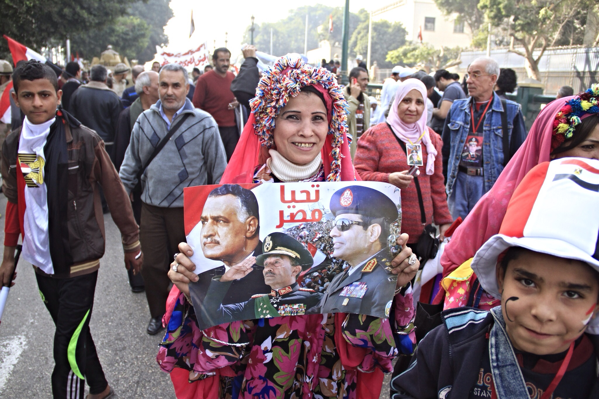 Original description: "Participant hold picture of General Abdel Fateh el Sissi, (Hamada Elrasam for VOA)."